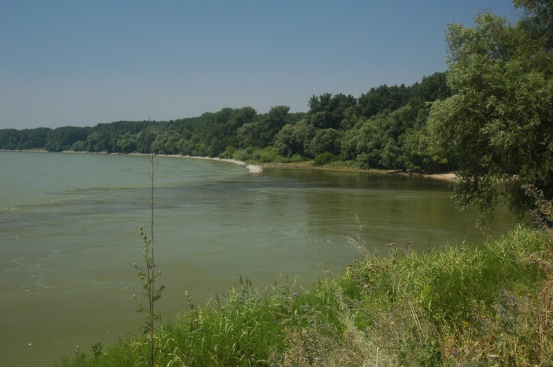 Danube and Morava confluence